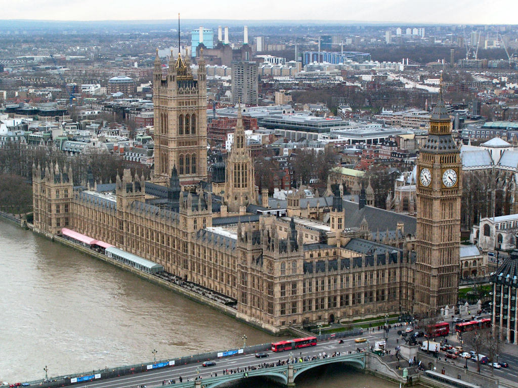 Westminster Palace in London, The Great Westminster Clock; The bell within the clock tower is named 'Big Ben.'